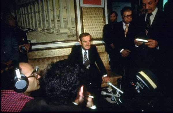 President Hafez al-Asad, in rage, giving a press conference at Damascus Airport on November 27, 1977 after receiving Anwar al-Sadat while on route to his historic trip to Jerusalem. Sadat asked Asad to come along, but the Syrian President refused, and later broke off diplomatic relations with Egypt.